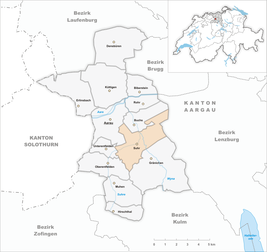 Municipality Suhr